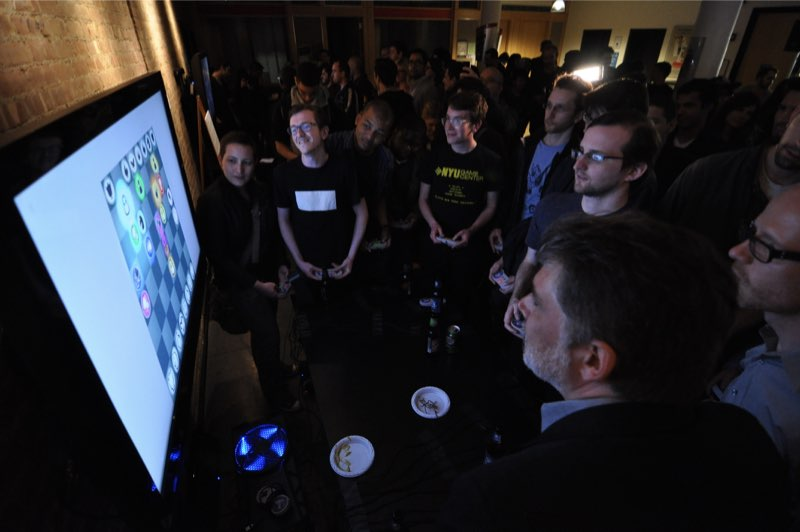 "This is a photo of my 16-player chess game, ‘Bennett Foddy’s Speed Chess’, at its debut, NYU’s No Quarter Exhibition in 2013"